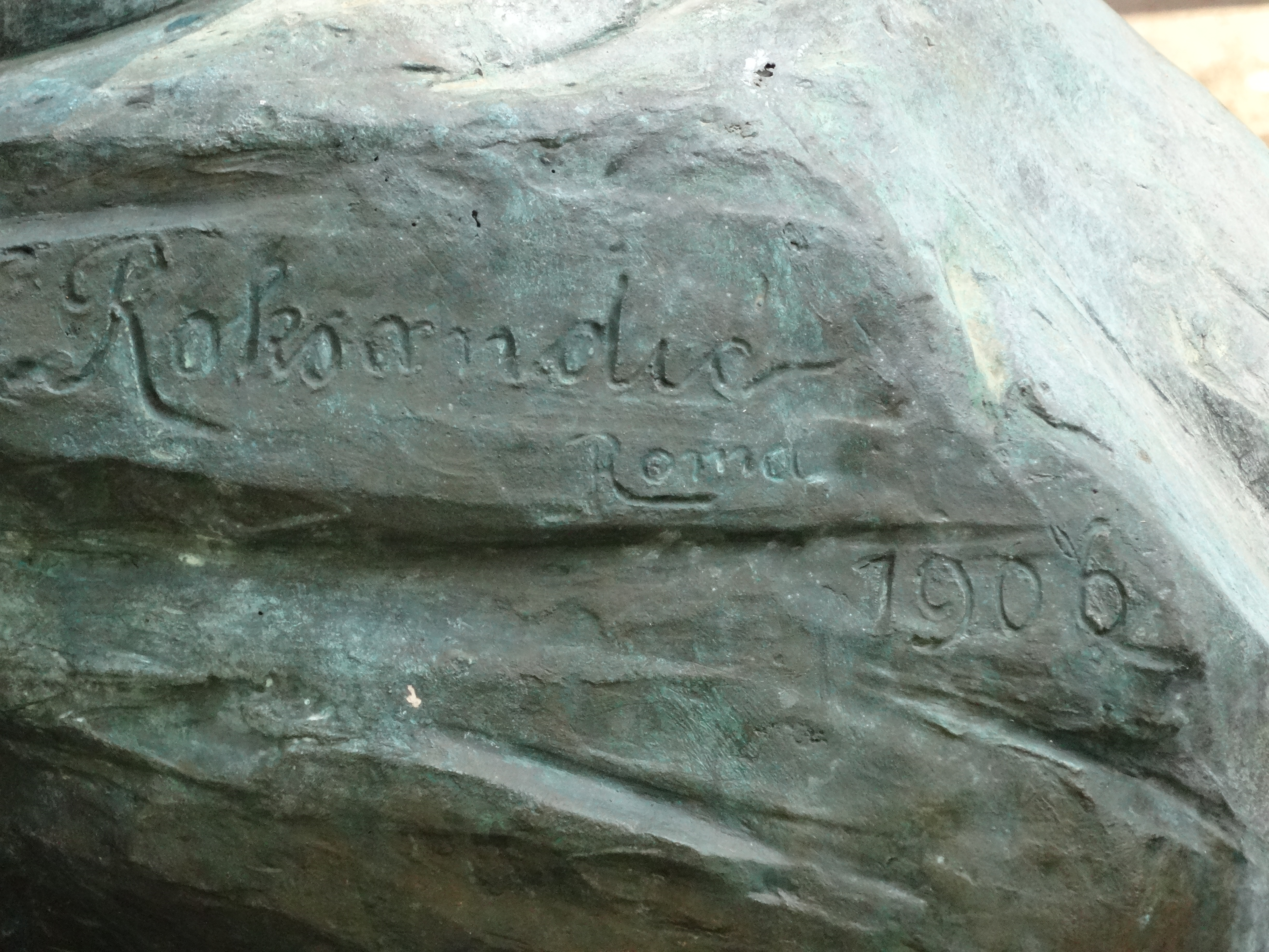 Fisherman statue in Kalemegdan